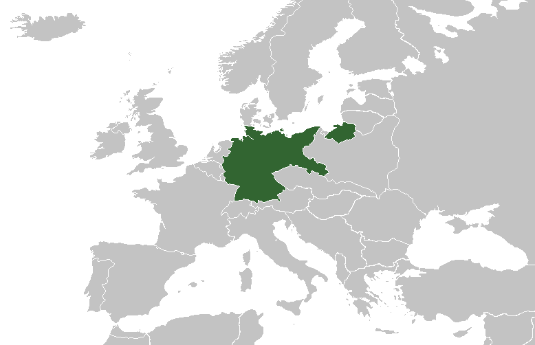 Map of the Weimar Republic in 1930.